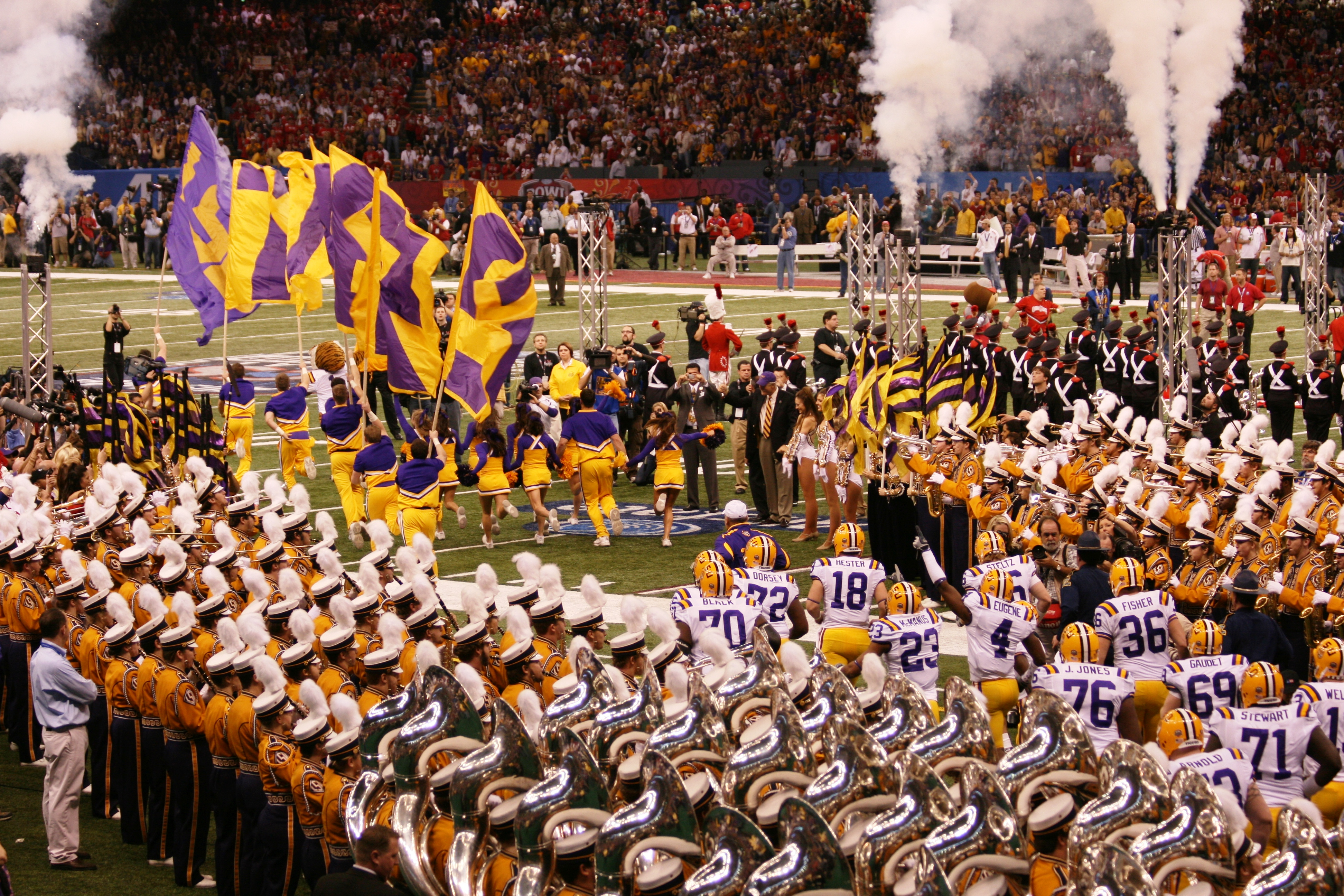 LSU takes the field at the beginning of the BCS National Championship game at the Louisiana Superdome